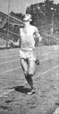 Andrej Vipotnik (1933-), Slovene athlete